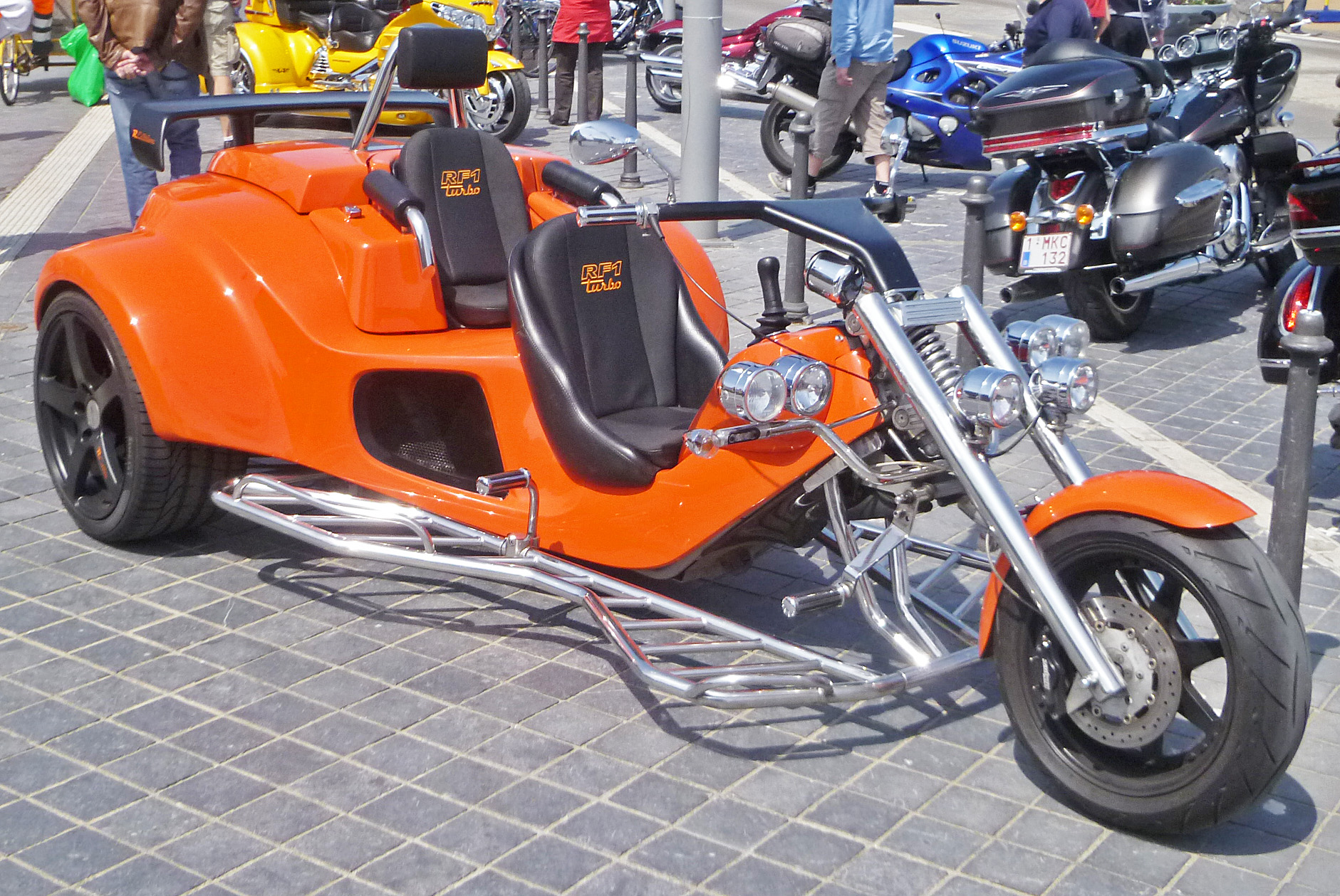 Rewaco RF1 trike